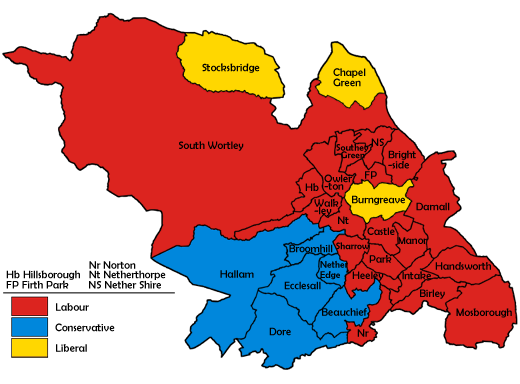 Ward map of Sheffield Council with political colouring for the 1980 election